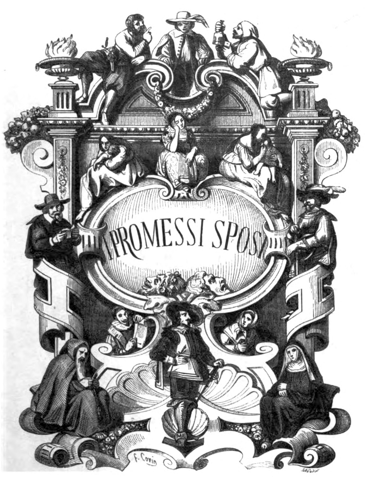 The most famous Italian historical romance,and the masterpiece of Alessandro Manzoni.